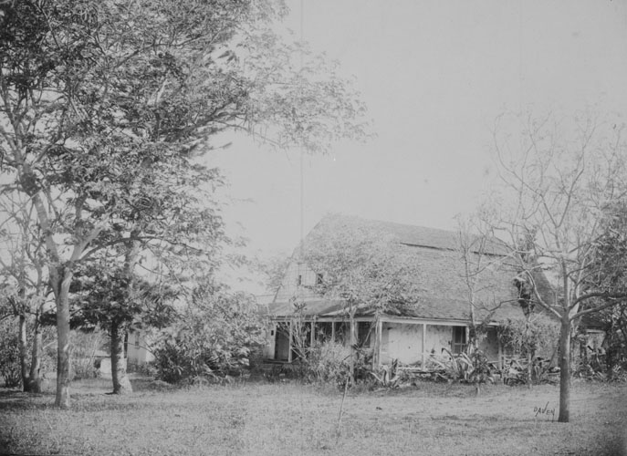 Emerson House, Waialua, Oahu, H.I. Davey Photo Company.